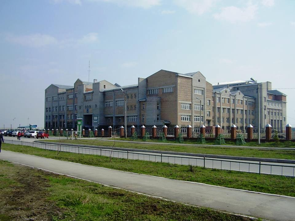 Сибайский институт (филиал) БашГУ